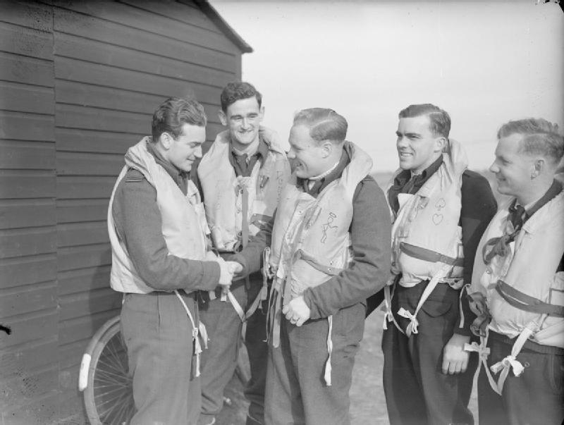 Royal Air Force 1939-1945- Fighter Command Flight Lieutenants Brendan 'Paddy' Finucane (left) and Keith 'Bluey' Truscott of No. 452 Squadron congratulate each other at Kenley on 13 October 1941. The two flight commanders had just returned from a very successful Circus operation during which each had shot down two Me109s.